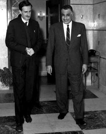 Kamal Jumblatt the head of the Progressive Socialist Party of Lebanon with Egyptian President Gamal Abdel Nasser in Cairo